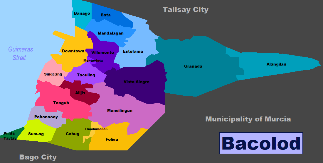 A district map of Bacolod City.